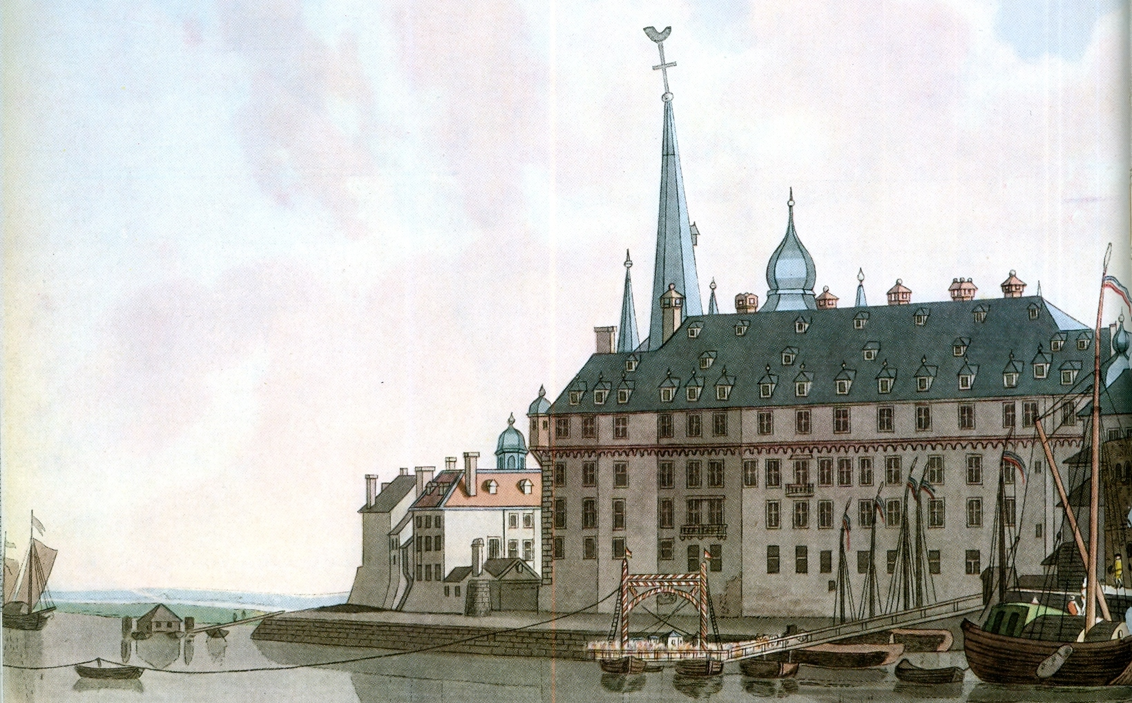 t